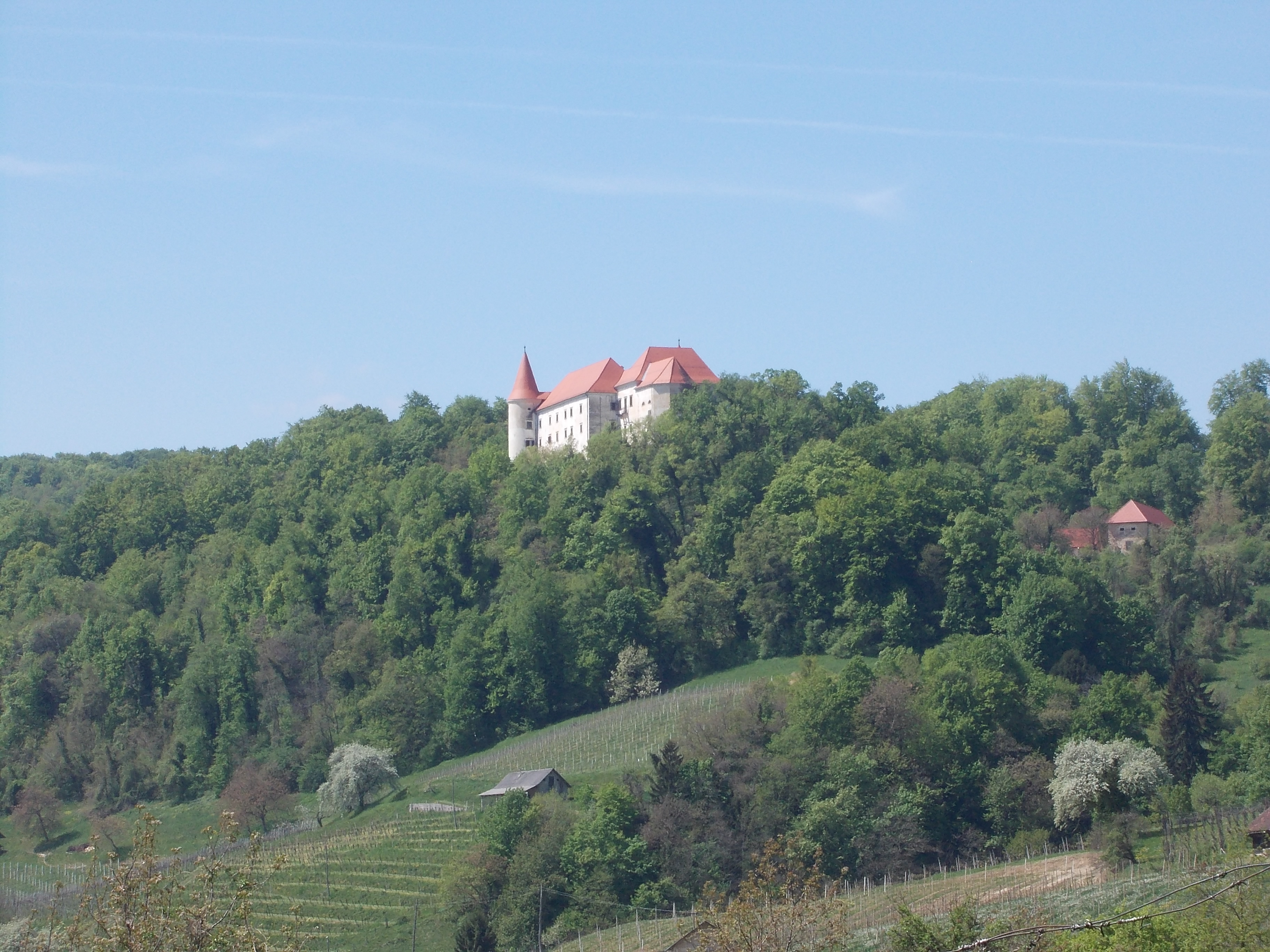 Bizeljsko Castle as viewed from Orešje na Bizeljskem